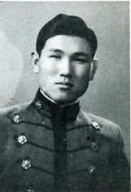 Roh Tae-woo, 1951